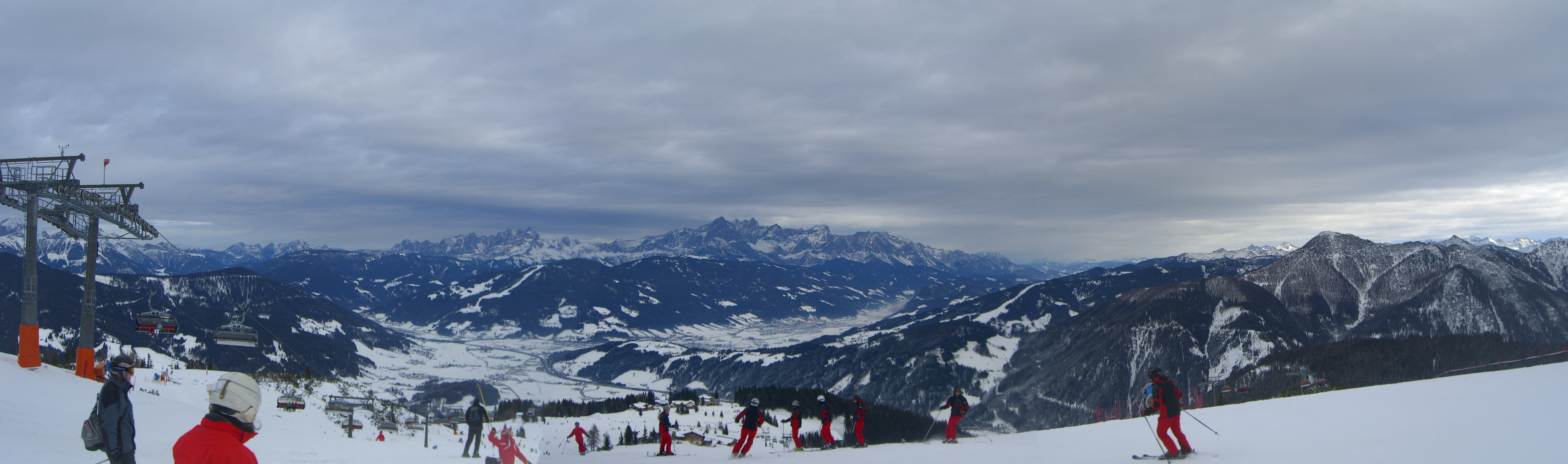 Note: This cannot be a view from Planai